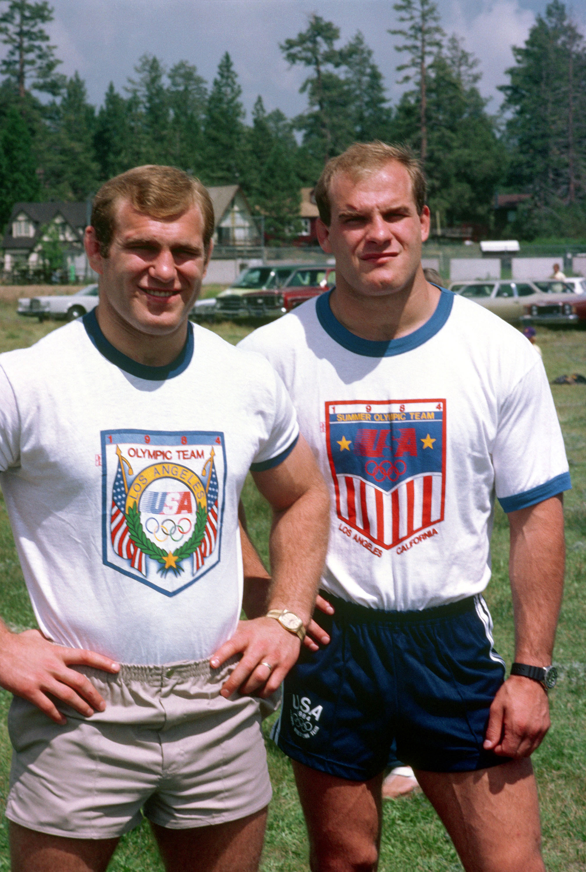 Army Second Lieutenant Ludwig Banach, right, and his twin brother Edward, members of the freestyle wrestling team competing at the 1984 Summer Olympics. (original text)